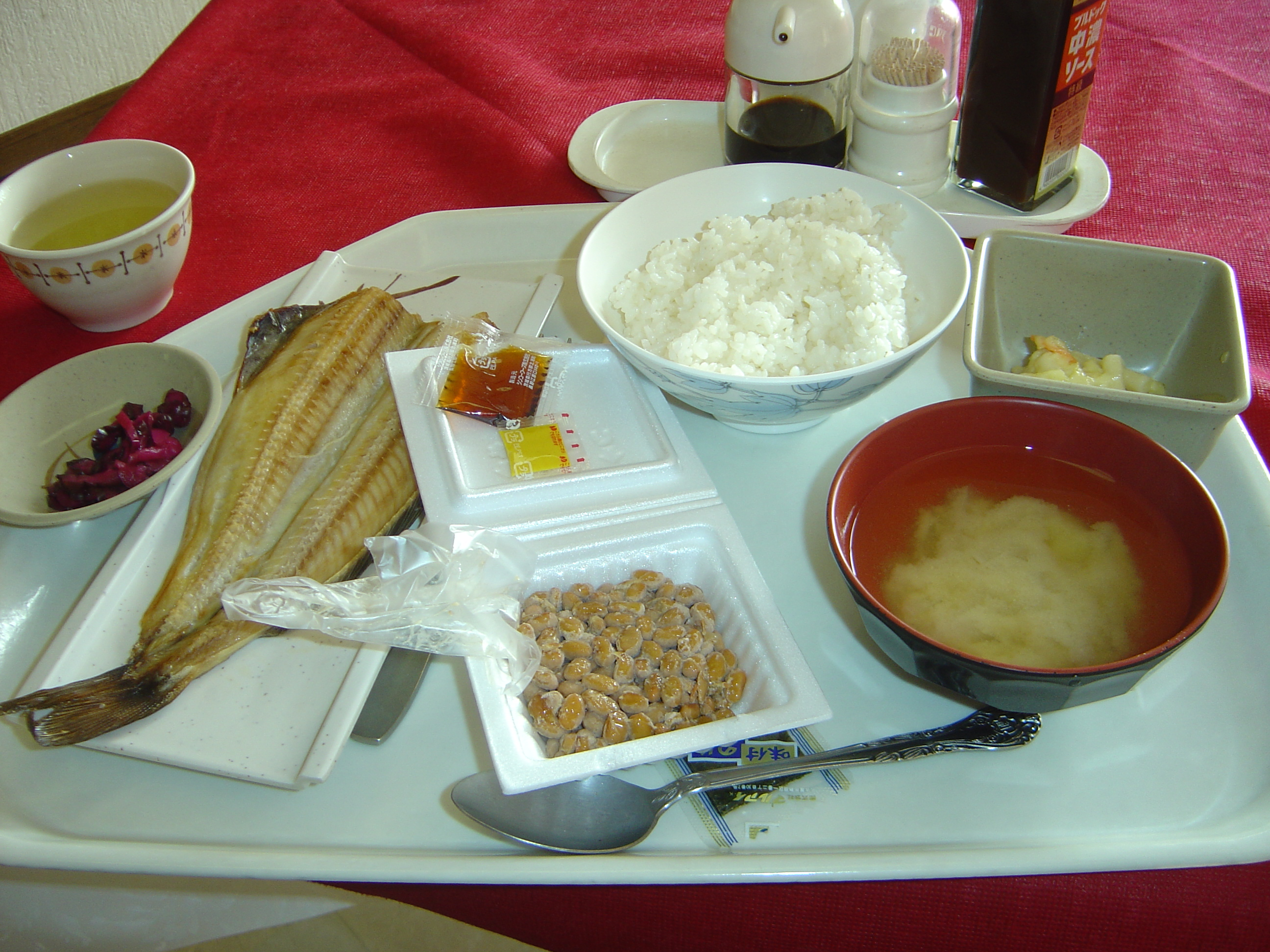 This is a depiction of Japanese traditional breakfast, but not what it looks like. Usually Japanese place fish dish left-to-right, not bottom-to-top. And generally it is disposed on the far side of the whole meal. They put the miso-soup bowl at right side of the closest, while the (steamed) rice bowl in its left.